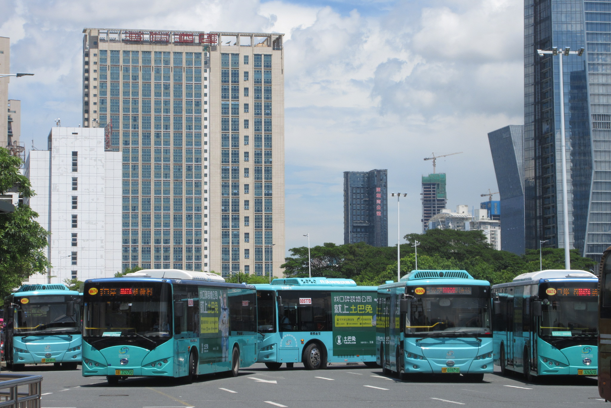 SZ 深圳 Shenzhen Bay Port Terminal 深圳灣口岸 Nanshan bus Stop in July 2017